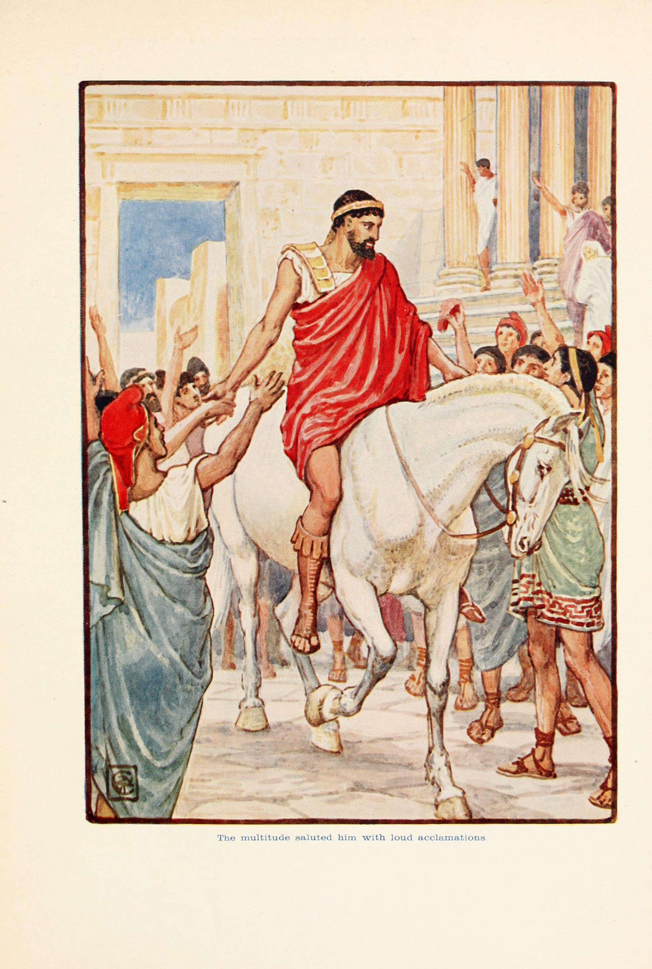 The return of Alcibiades to Athens p.257, and image following page. These stories from the history of ancient Greece begin with myths and legends of gods and heroes and end with the conquests of Alexander the Great. The book is accessible and well organized, but it is considerably more detailed than some other introductory texts. It covers Greek history from the age of Mythology to the rise of Alexander, but because of its length we do not recommend it for 5th grade or younger. It is an excellent reference, thoroughly engaging, and a good candidate for a somewhat older student's first foray into Greek history.